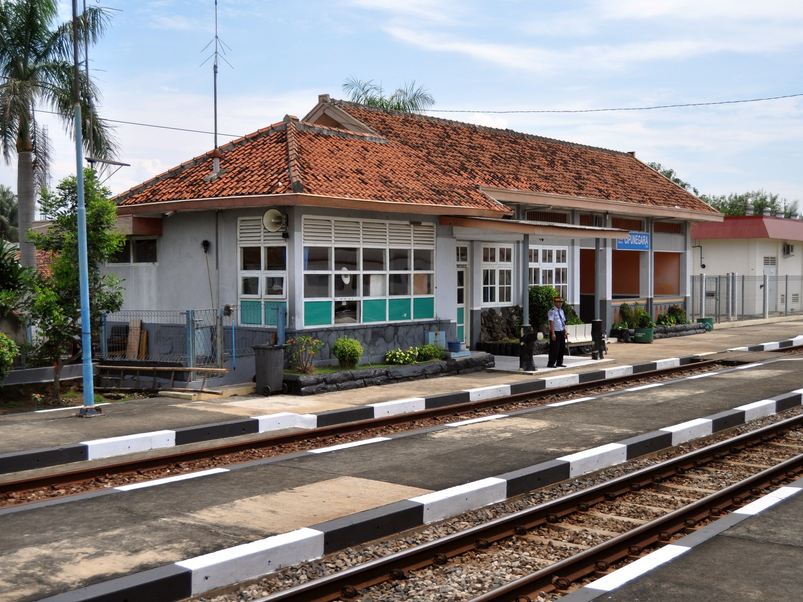 Cipunegara train station in Subang, West Java, Indonesia